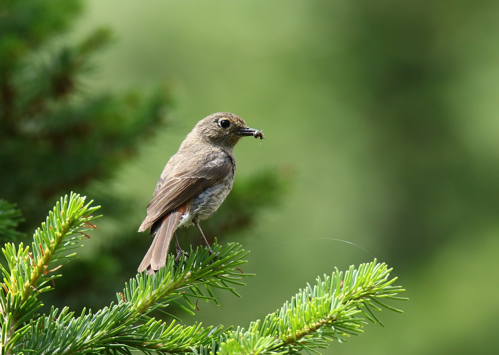 Blue-capped Redstart (Phoenicurus caeruleocephala) captured at Rama, Astore, Gilgit-Baltistan, Pakistan with Canon EOS 7D Mark II